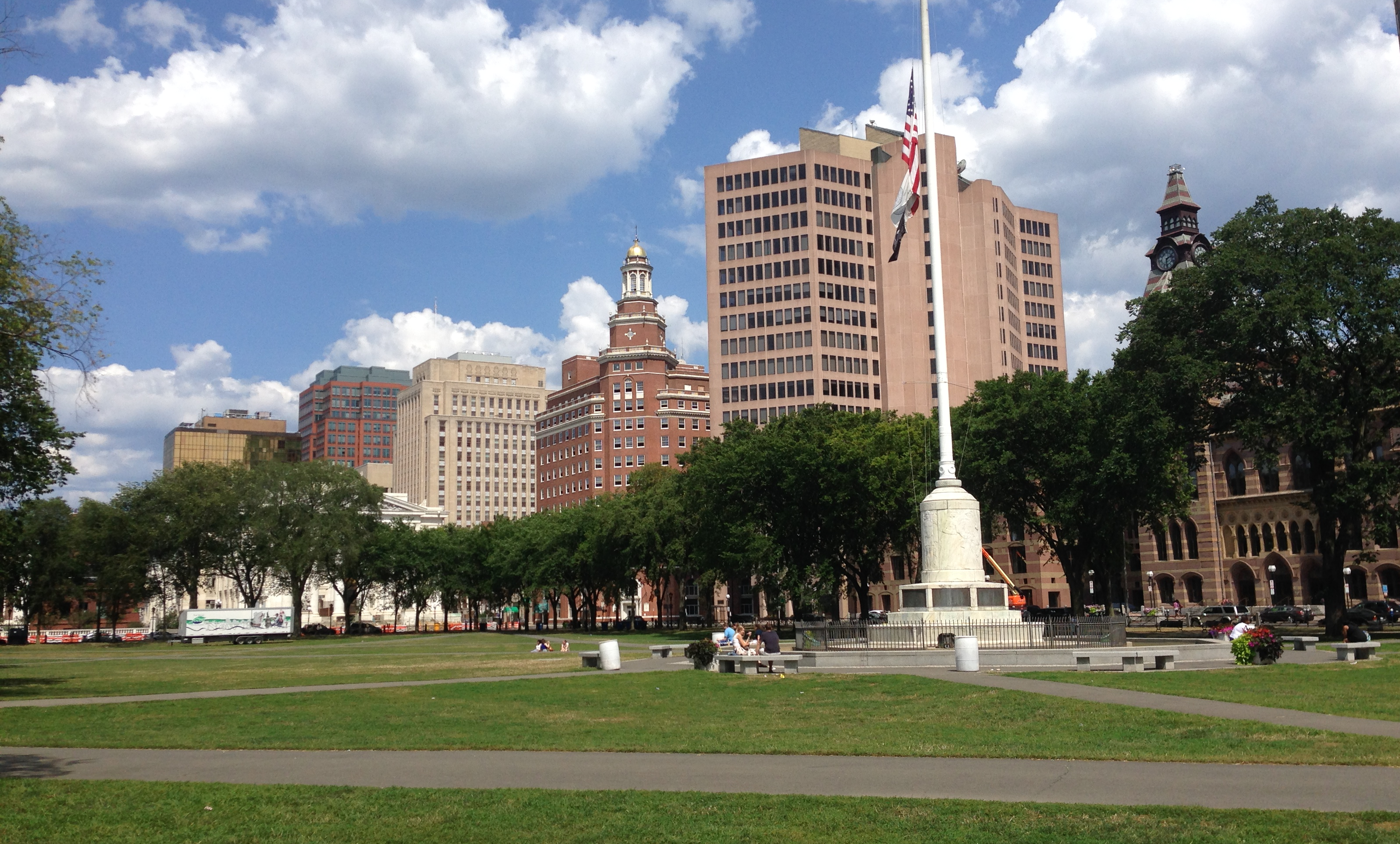 View of the New Haven Green, looking Northeast from its East side.